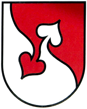 Coats of arms of the Municipality of Kumrovec, Krapina-Zagorje County, Croatia